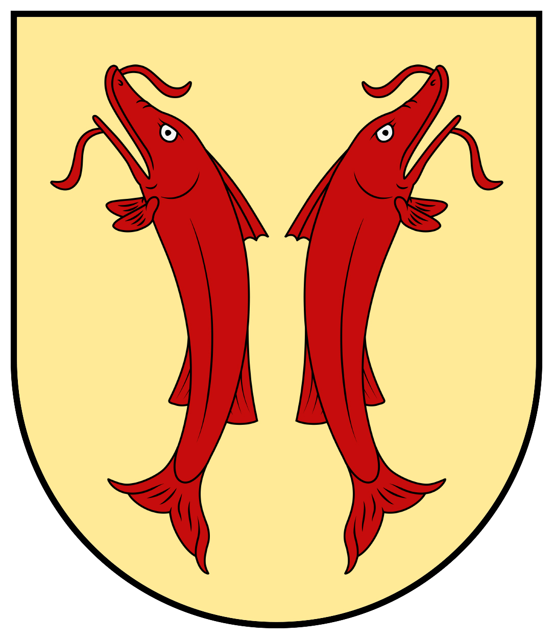 coat of arms of the lordship of Altena